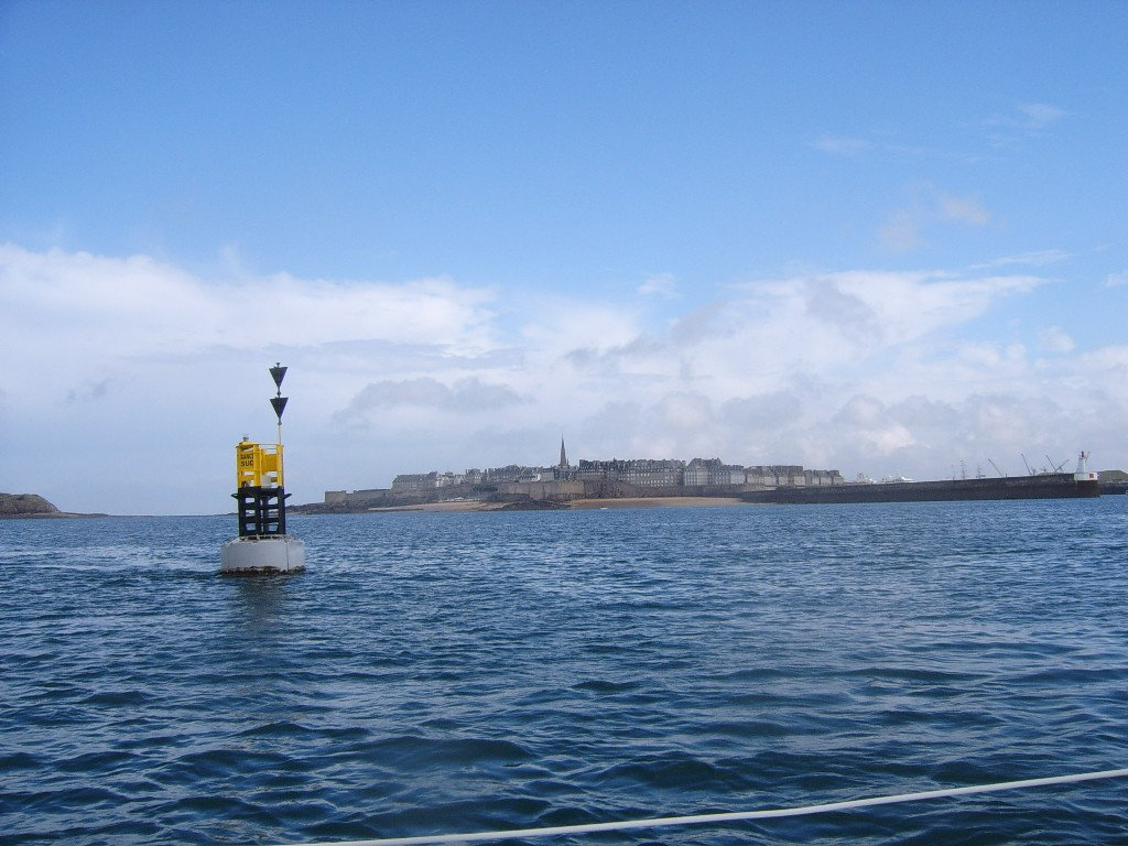 Rance river and Manche in front of Saint-Malo